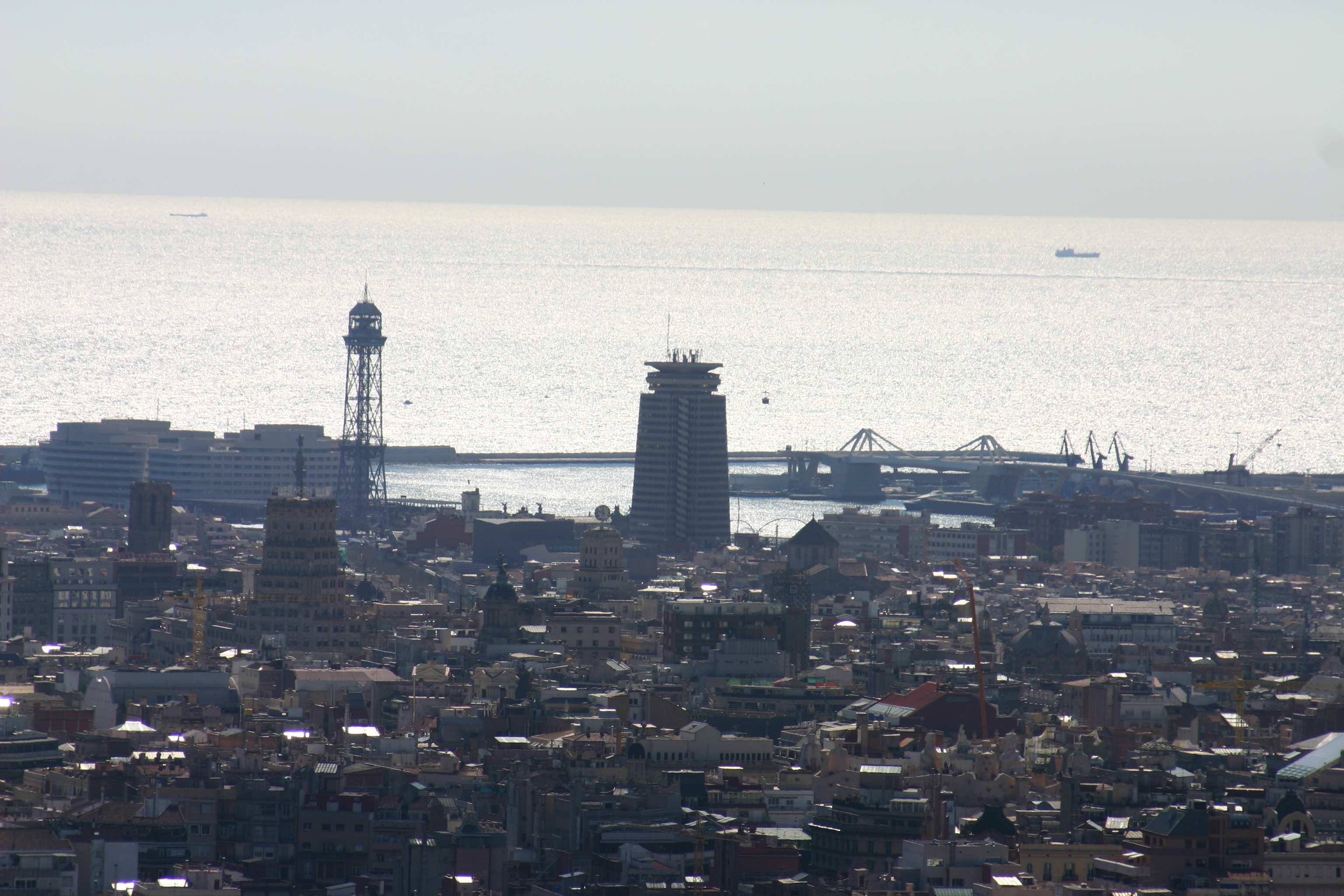 Barcelona harbour seen from the Park Güell.